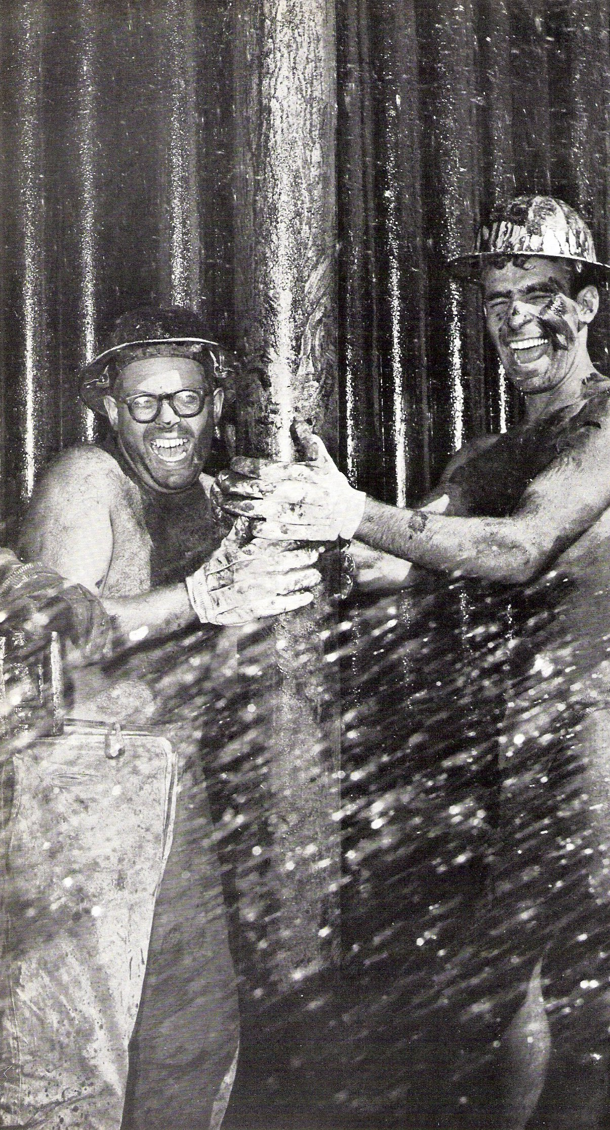 The Heletz oil field was the location of the first successful oil well in Israel, with extraction beginning in 1955 resulting in much celebration.